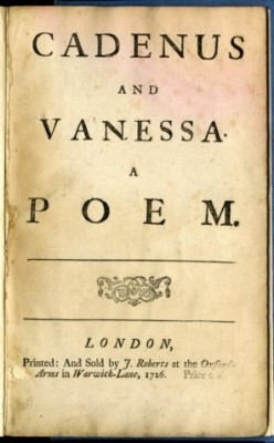 First page of the book "Cadenus and Vanessa. A Poem" by Jonathan Swift